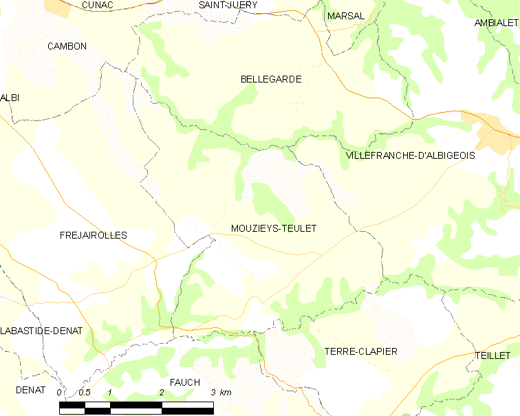 Map of French municipality Mouzieys-Teulet